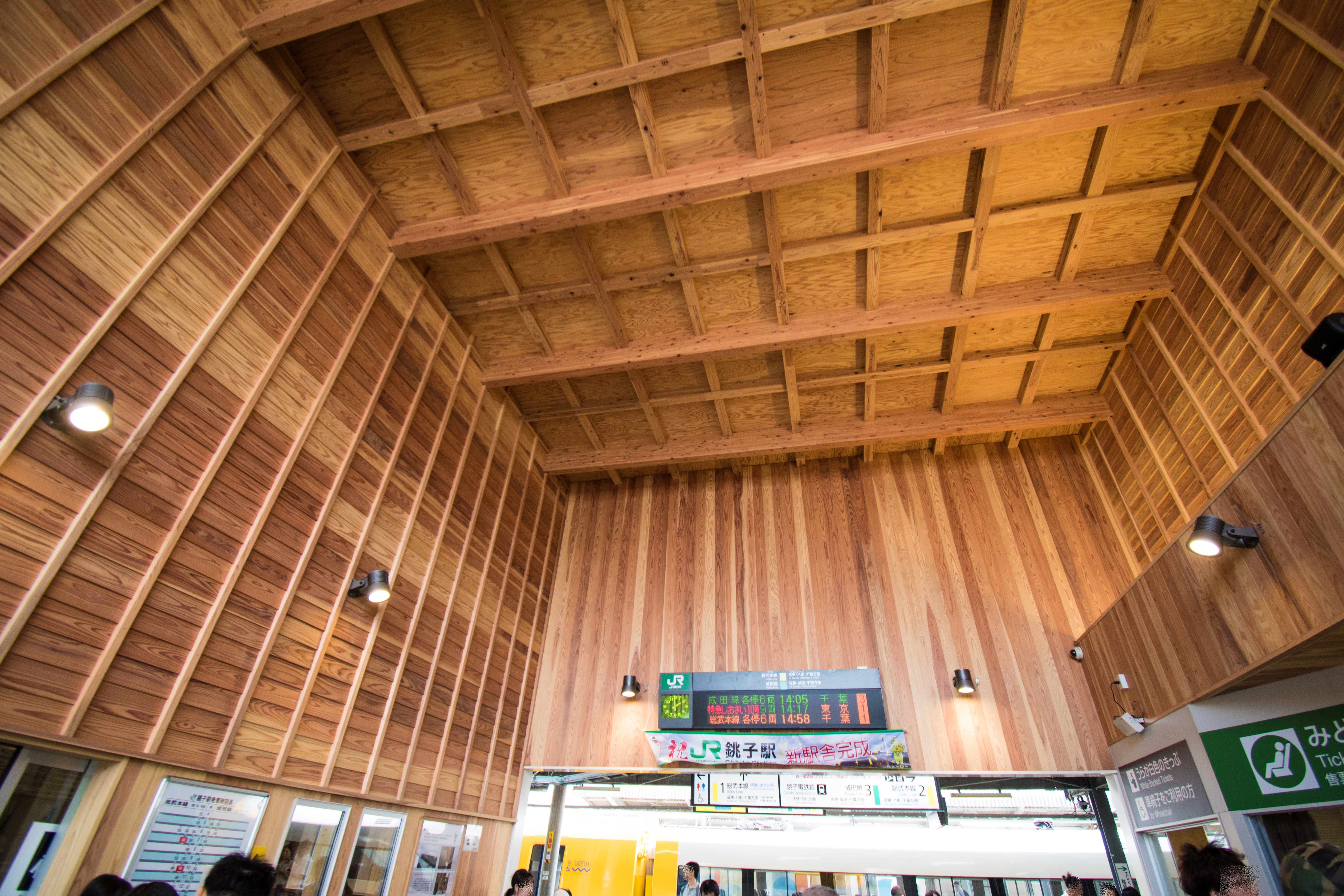 Interior of the JR East Chōshi Station in Chōshi City, Chiba Prefecture, Japan.